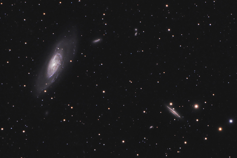 M106 and NGC 4217 in Canes Venatici Using 130mm APO and ST-4000XCM